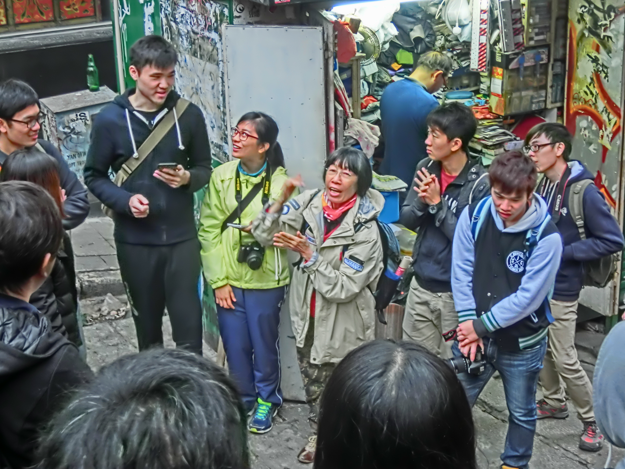 Pottinger Street, neat Hollywood Road and Wyndham Street